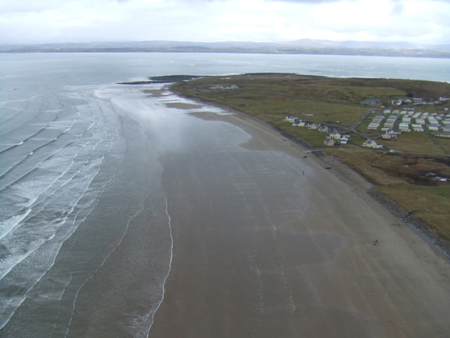 Rossnowlagh Beach Looking north towards Killybegs. The tide is retreating.